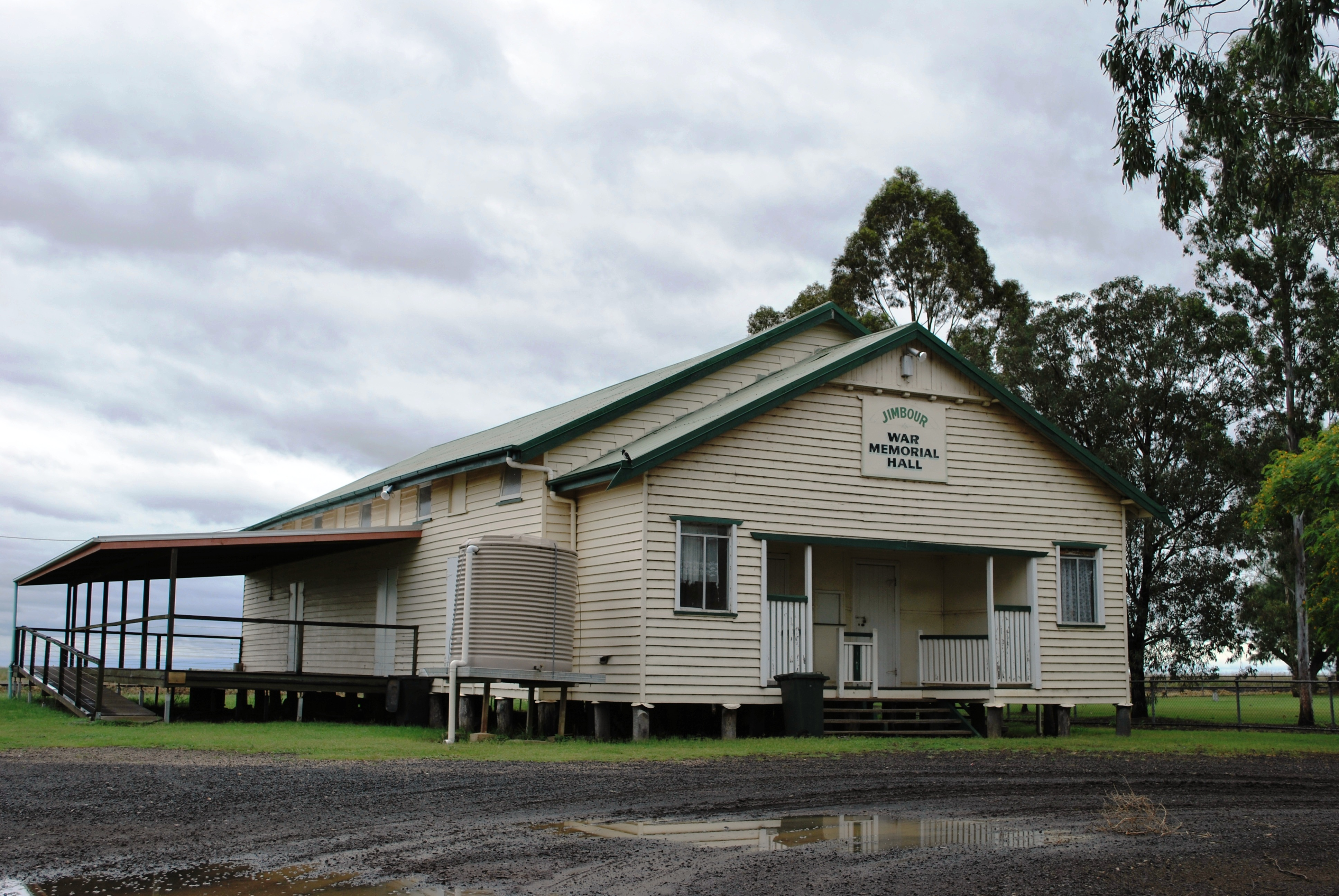 War memorial hall at Jimbour, Queensland